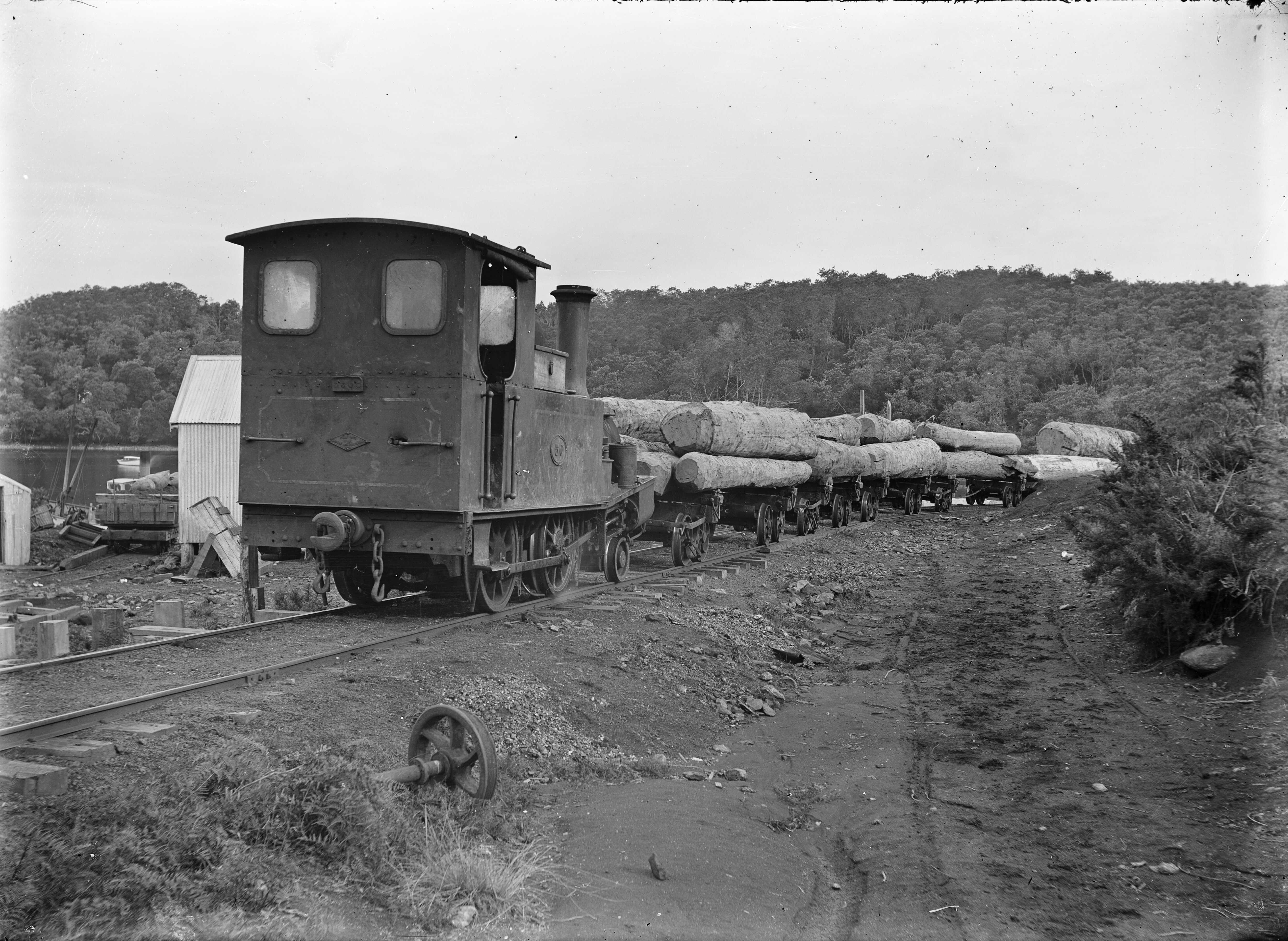 View of a logging train belonging to the Kauri Timber Company, at Waipapa. Photographed by Albert Percy Godber in 1912. Dated from other images in the Godber album.